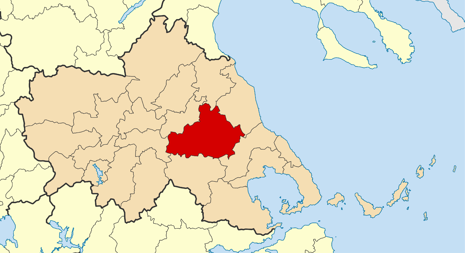 Locator map for Kileler municipality in Greek region Thessaly (2011)